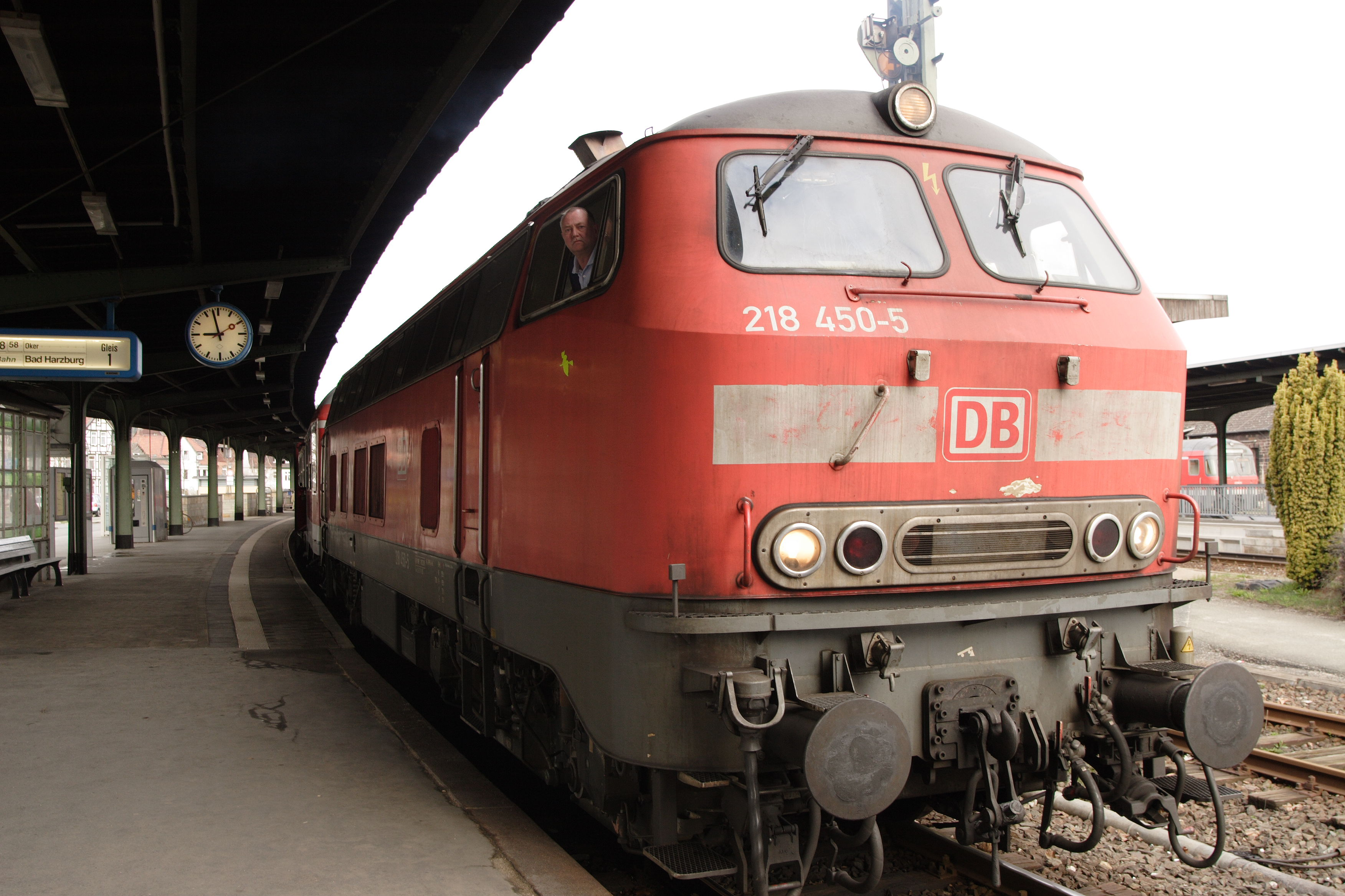 photo of die bahn in Goslar